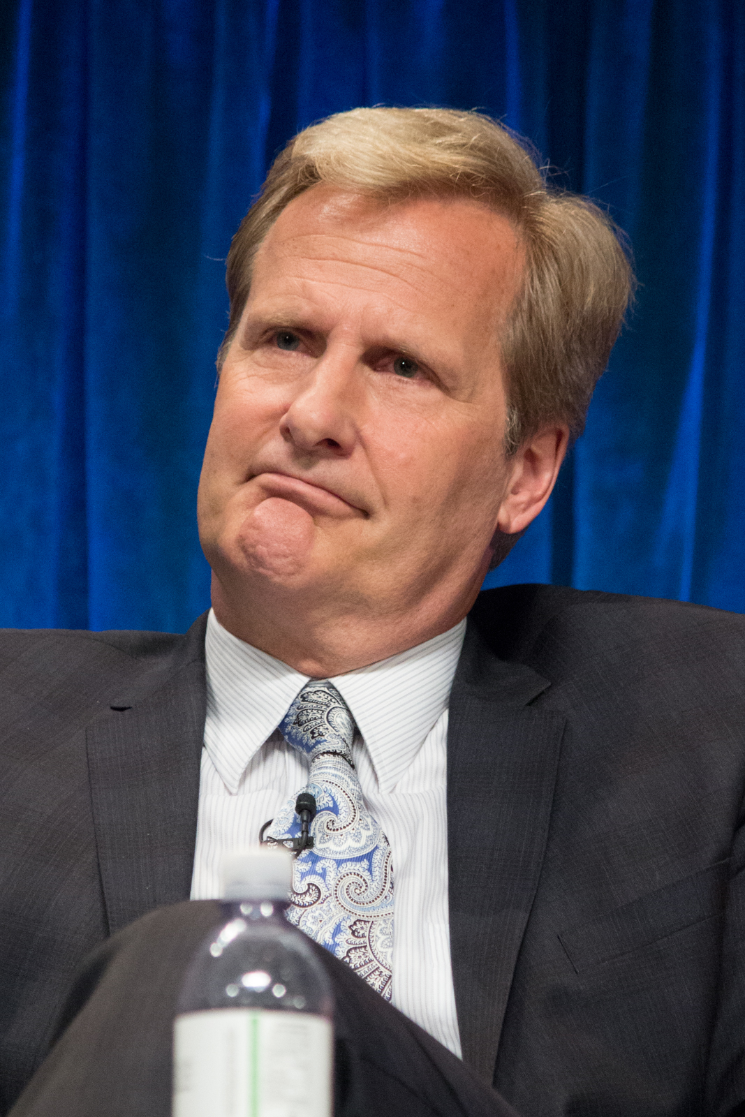 Jeff Daniels at the PaleyFest 2013 panel on the TV show "The Newsroom"